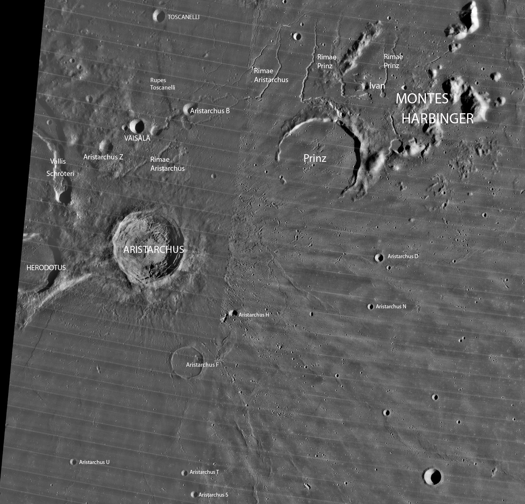 Picture showing the craters Aristarchus, Herodotus, Prinz, Väisälä, Ivan, Toscanelli. All of Aristarchus satellite craters are marked. The picture also show the Montes Harbinger, Vallis Schröteri, Rimae Aristarchus, Rimae Prinz and Rupes Toscanelli